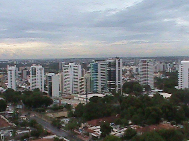 bairro da cidade de Manaus